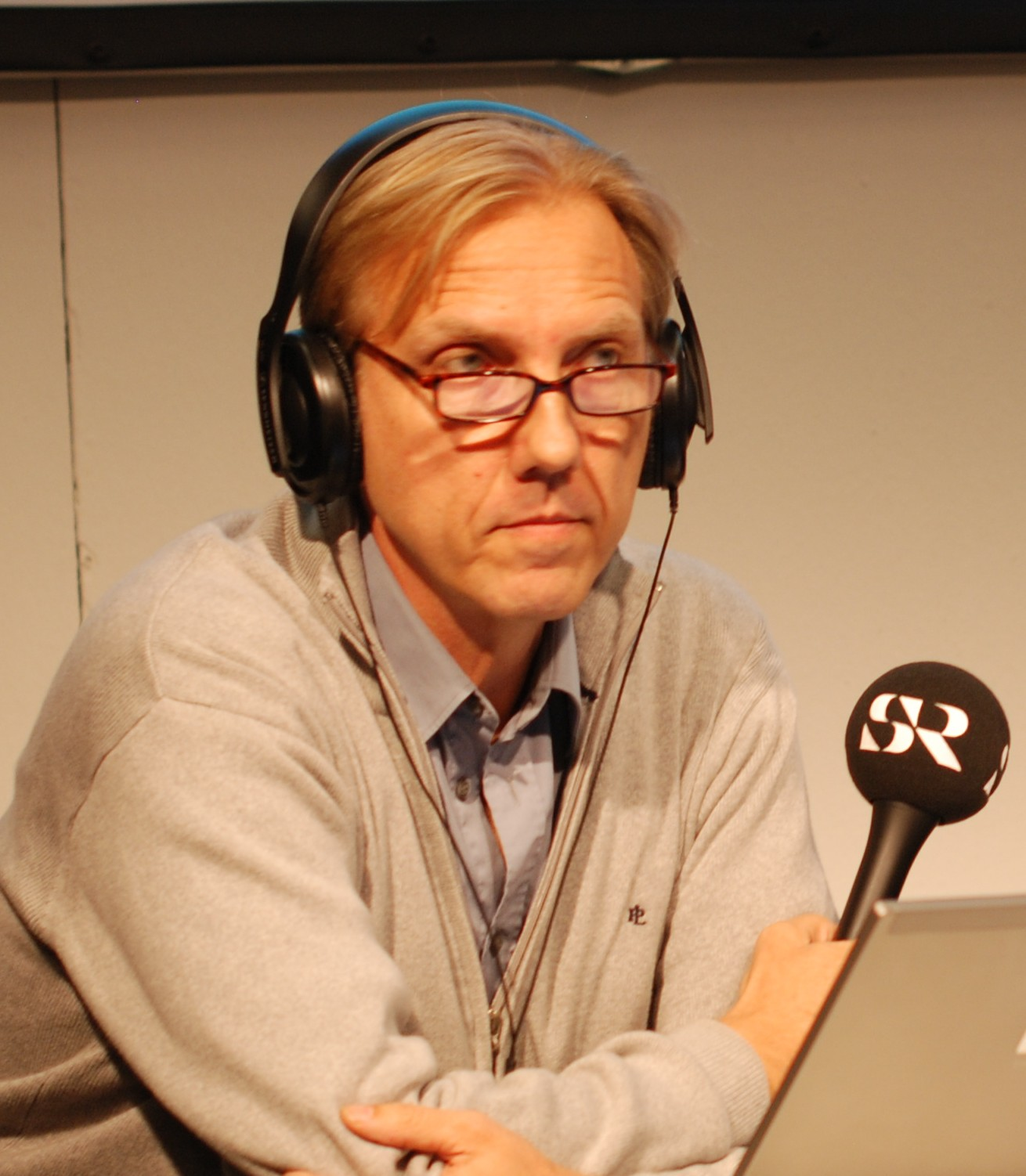 Swedish radio journalist Erik Blix at the Göteborg Book Fair 2010